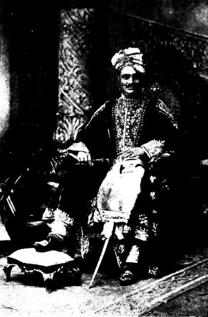 Picture of ruler of the former Sunth State c. 1922. The state is now in the state of Gujarat in India.